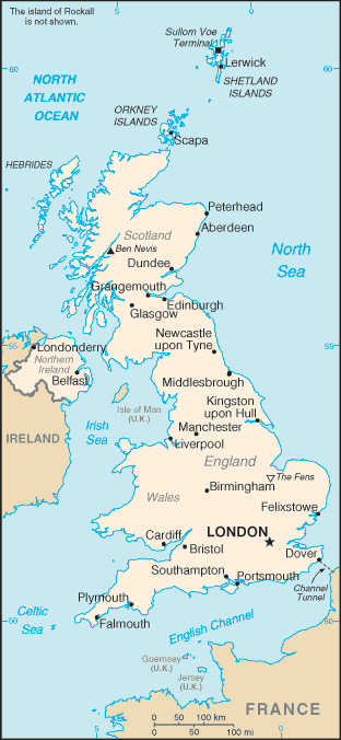 A map of the United Kingdom, showing major towns.